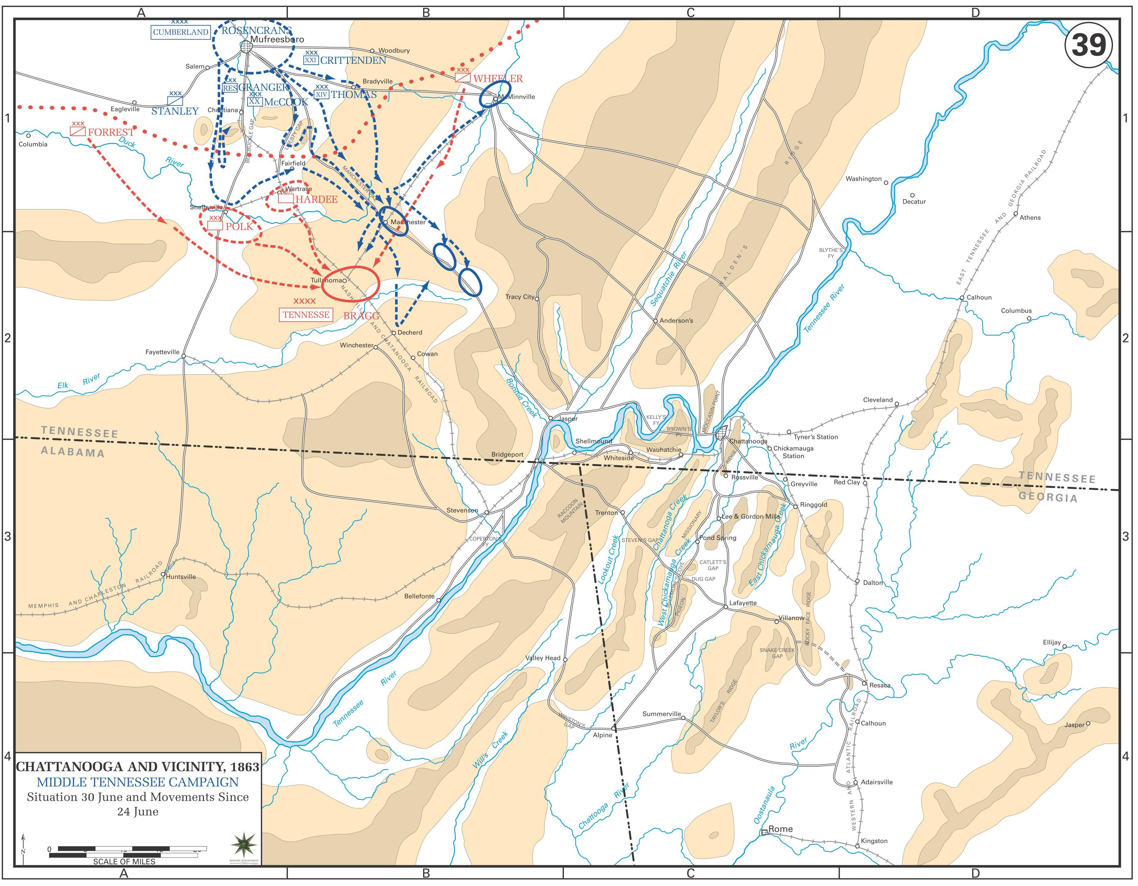 Western Theater: movements June 1863 (Tullahoma Campaign).